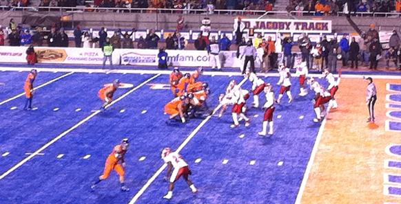 The Boise State offnse in the redzone going in to score against Fresno State during their game at Bronco Stadium in Boise, Idaho on November 19, 2010.